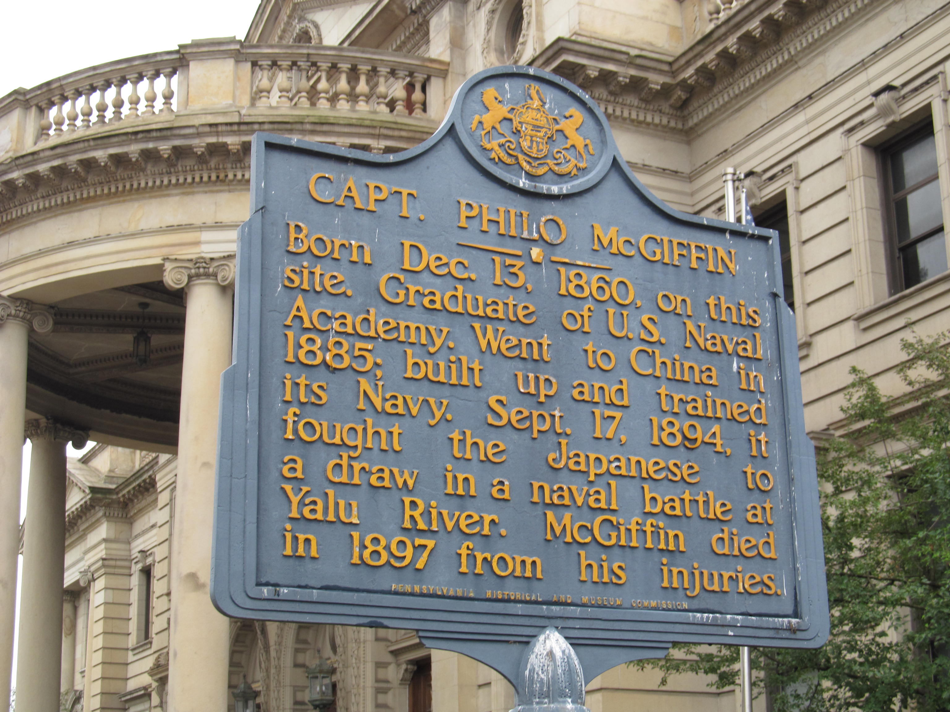 Washington, Pennsylvania